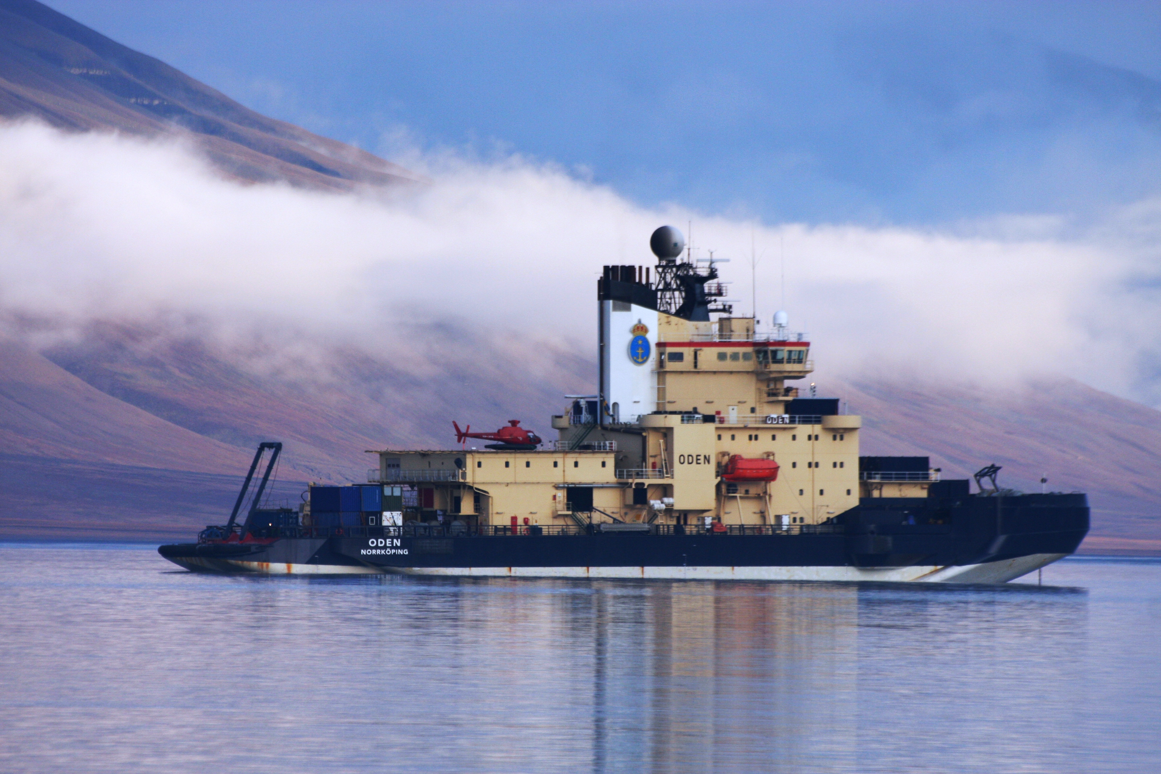 Icebreaker Oden (Sweden) in Advent Fiord, by Longyearbyen, Svalbard.